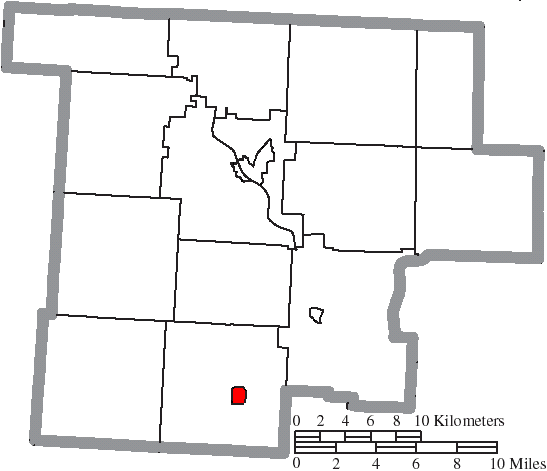 Map of the municipal and township boundaries of Morgan County, Ohio, United States, as of the 2000 census, with the location of the village of Chesterhill highlighted. Township borders are shown only in unincorporated areas in order to differentiate incorporated and unincorporated areas more clearly.